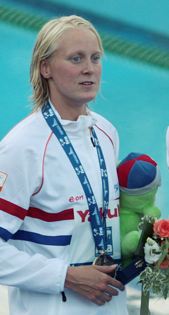 Medalist Inge Dekker during 2009 FINA World Championships, Rome, Italy.